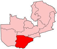 Map of Zambia showing Southern province.